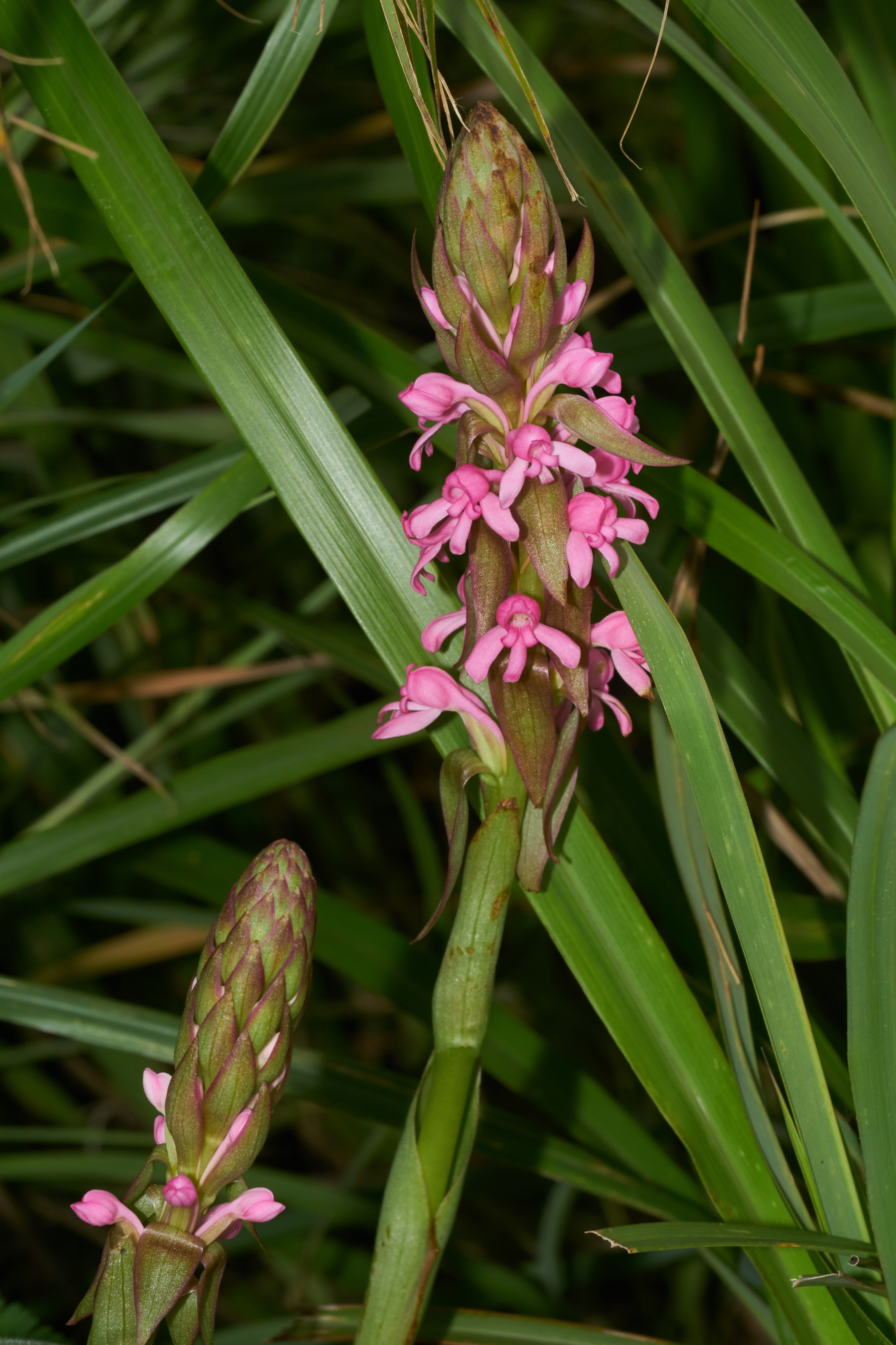 Satyrium nepalense, Nepal Satyrium, is a rare medicinal orchid found in the sloppy hills of India, China, Pakistan, Nepal, Bhutan and in Sri Lanka. It is found at varied elevations, above 1300 m. (ID: Indian Flora)